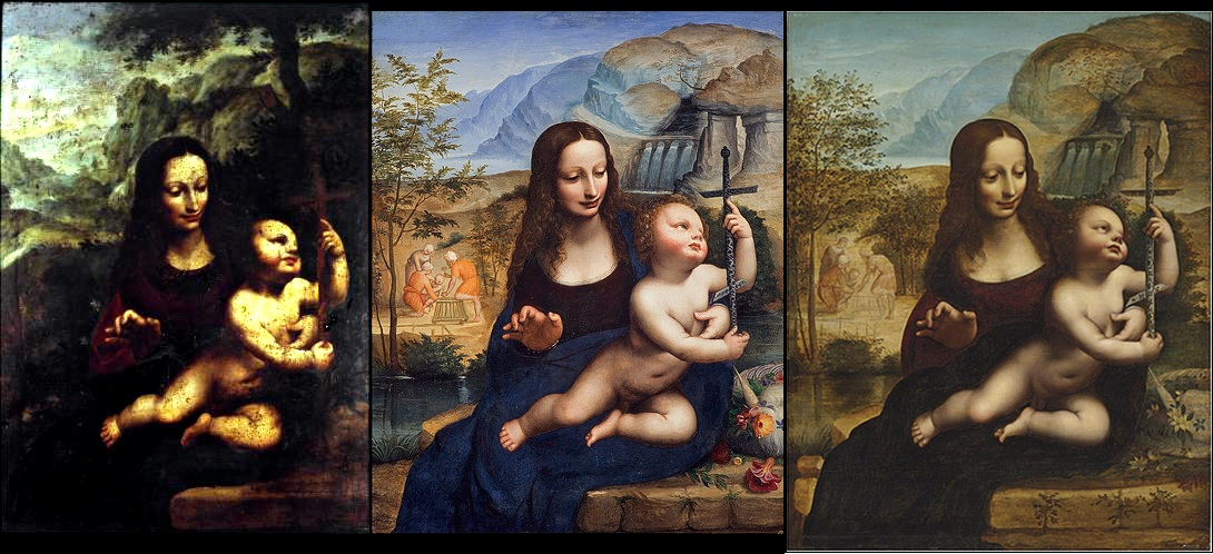 Different version of the piece there Madonna is not wearing a turban and has different facial features.